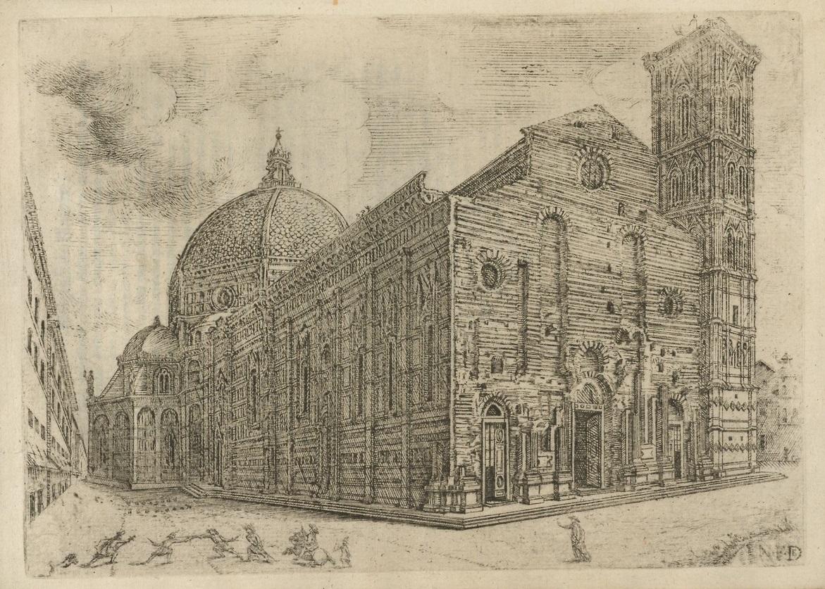 Firenze citta ́nobilissima illustrata, 1684, by Ferdinando Leopoldo del Migliore. Ital 3365.1*, Houghton Library, Harvard University